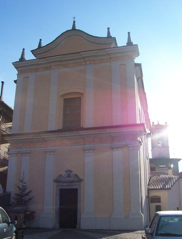 Church of St Lawrence. Demo, Berzo Demo, Val Camonica